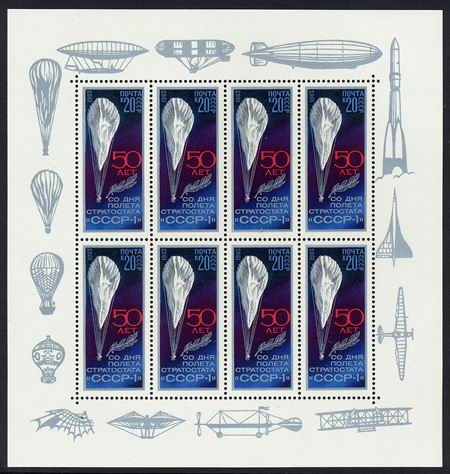 Stamp of USSR